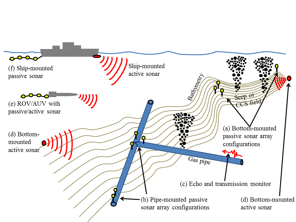 Schematic of use of active and passive sonar to detect bubble leakage from seabed (seeps, carbon capture and storage facilities) and gas pipelines (originally from Leighton, T.G. and White, P.R. (2012) Quantification of undersea gas leaks from carbon capture and storage facilities, from pipelines and from methane seeps, by their acoustic emissions, Proceedings of the Royal Society A, 468, 485-510 (